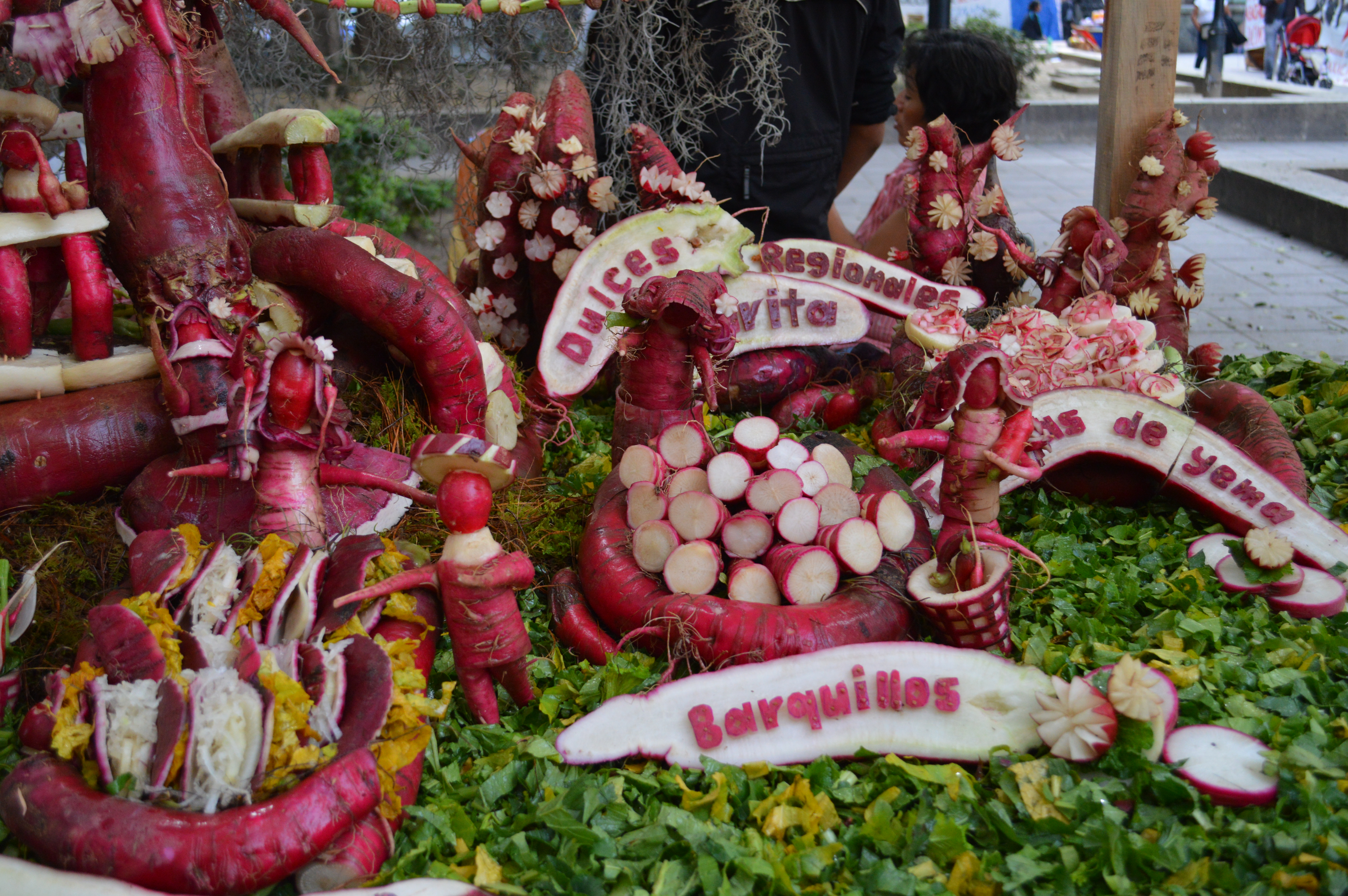 "Dulce Regional Oaxaqueño" by Carlos Laurencio Vazquez Sebastian at the 2014 Noche de Rabanos in the city of Oaxaca, Mexico